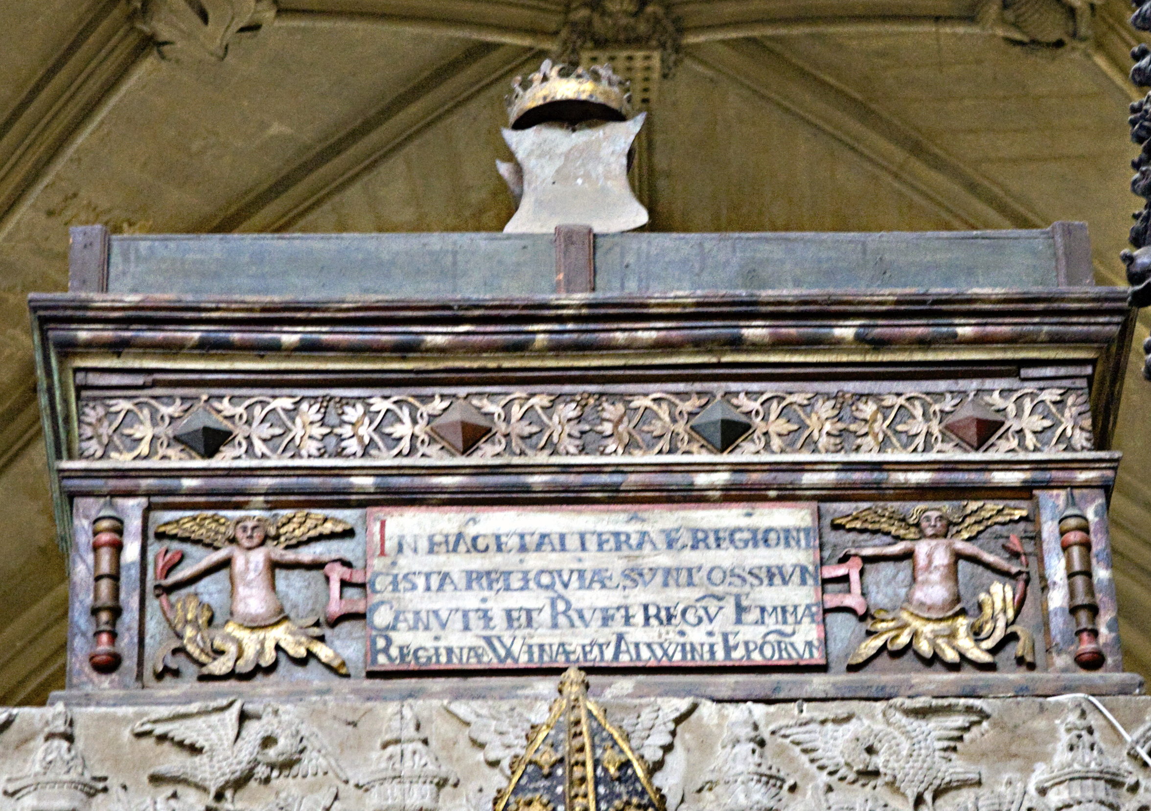 Mortuary chest from Winchester Cathedral, Winchester, England. This is one of six mortuary chests near the altar in the Cathedral, this one purports to contain the bones of Canute and his wife Emma, along with others. See here for more details.